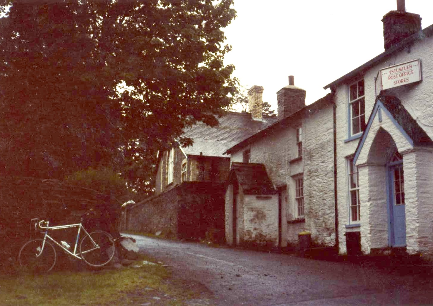 An old lead mining village up a huge hill in the middle of nowhere.